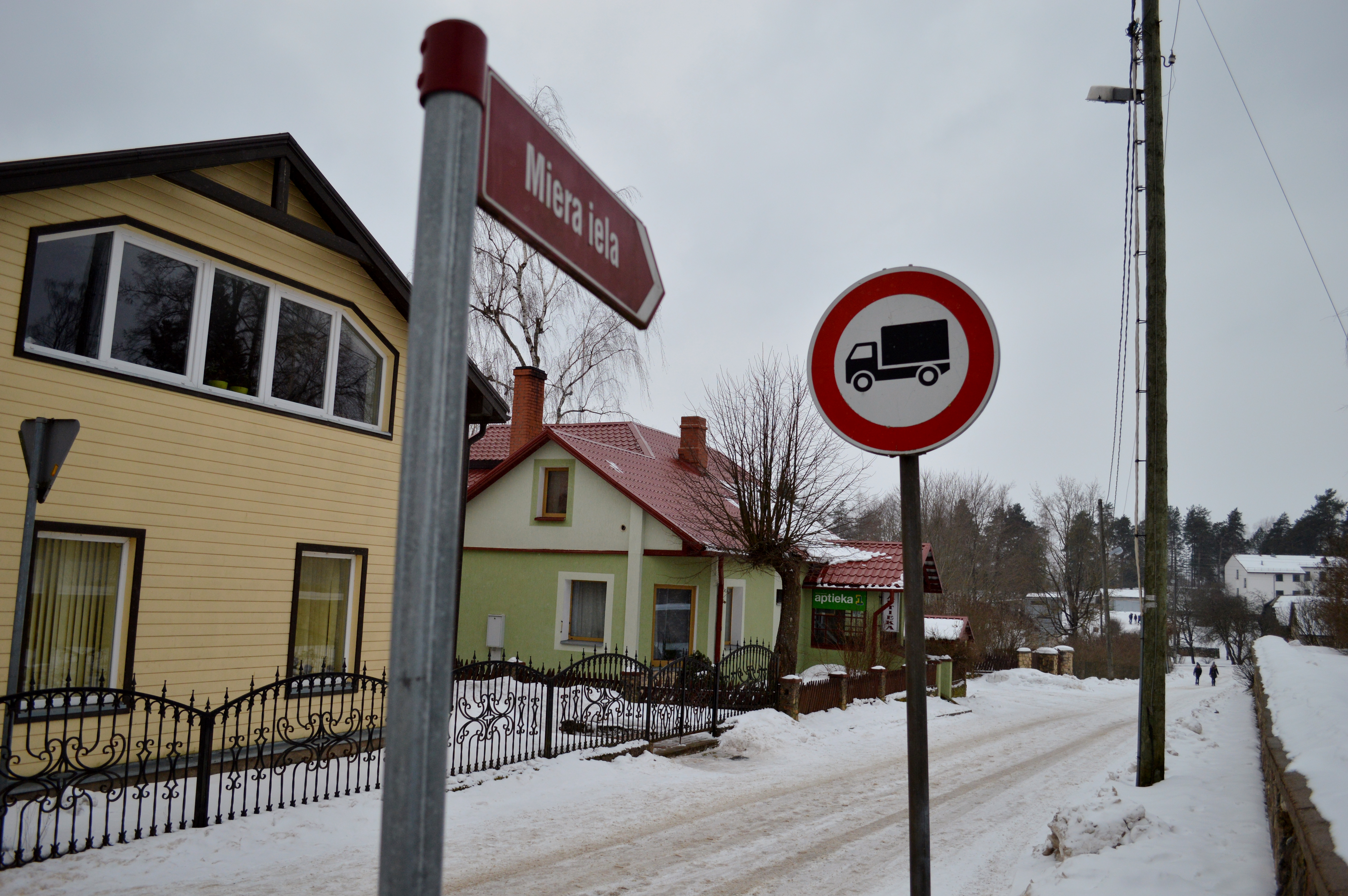 Miera street, Viesīte town.